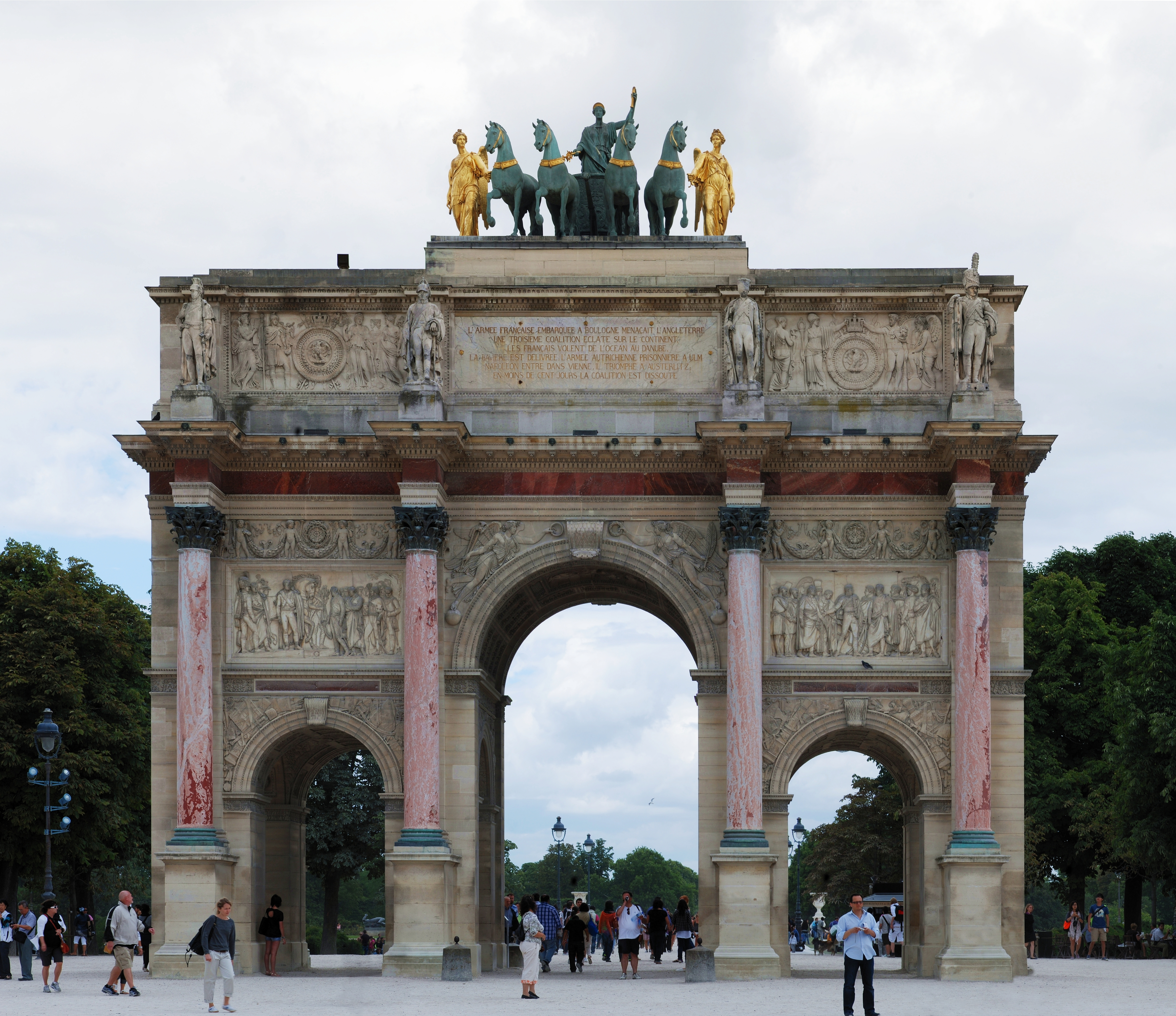 Arc de Triomphe du Carrousel, Paris. Panorama of 16 images stitched with Hugin.